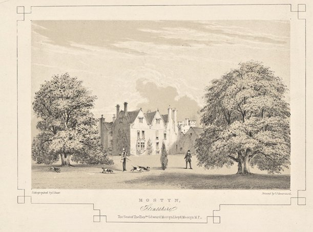 Large house, two men with guns and hunting dogs.